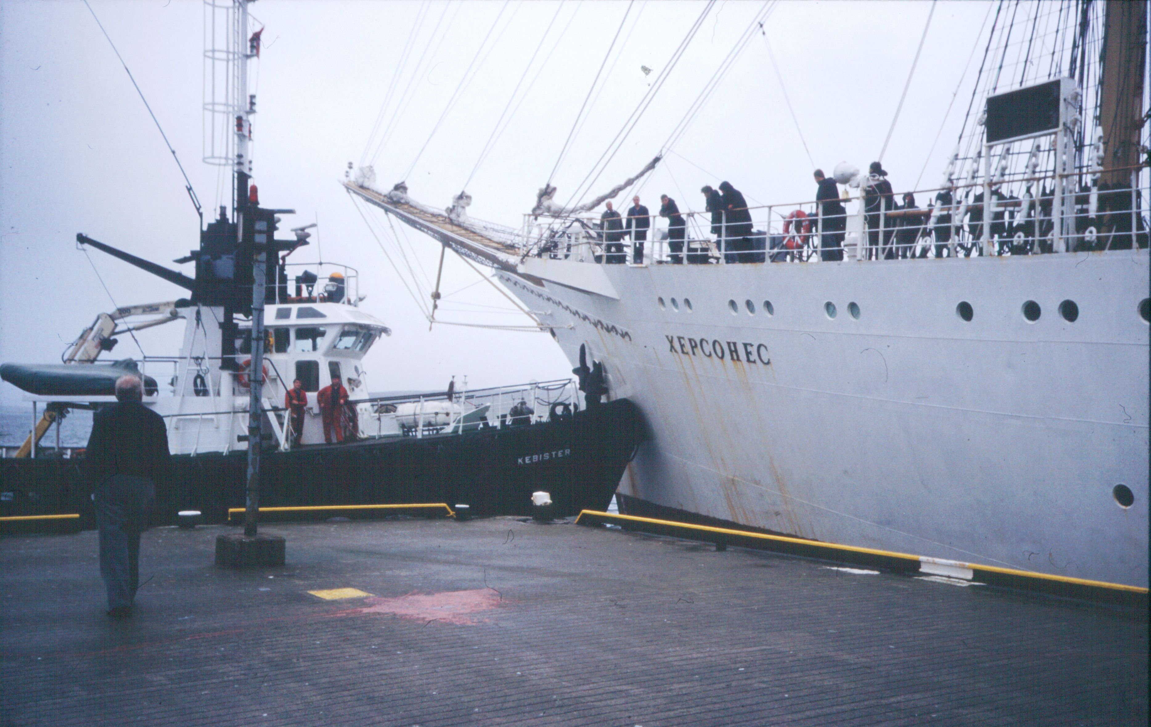 Sailing-vessel „Chersones“ (Ukraina) at the pier of Lerwick, Shetland Islands, starting maneuver